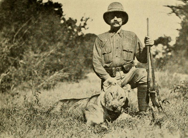 Lioness, shot in the Sotik Plains of Kenya, 1909. The specimen in question nearly killed the author, Tjader.